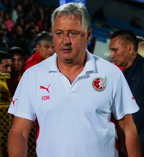 Rinat Bilyaletdinov